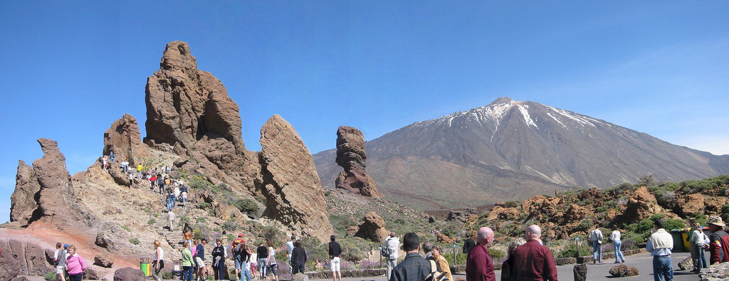 Imagen famosisima de los Roques de Garcia y el Teide de fondo. Very famous picture of the Roques de Garcia and the Teide behind them.